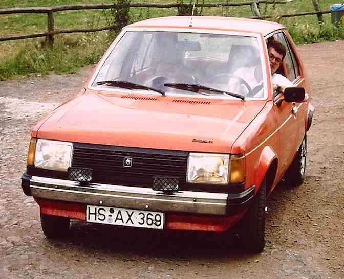 Chrysler Simca Horizon LS, build 05/1978. Picture taken 1986